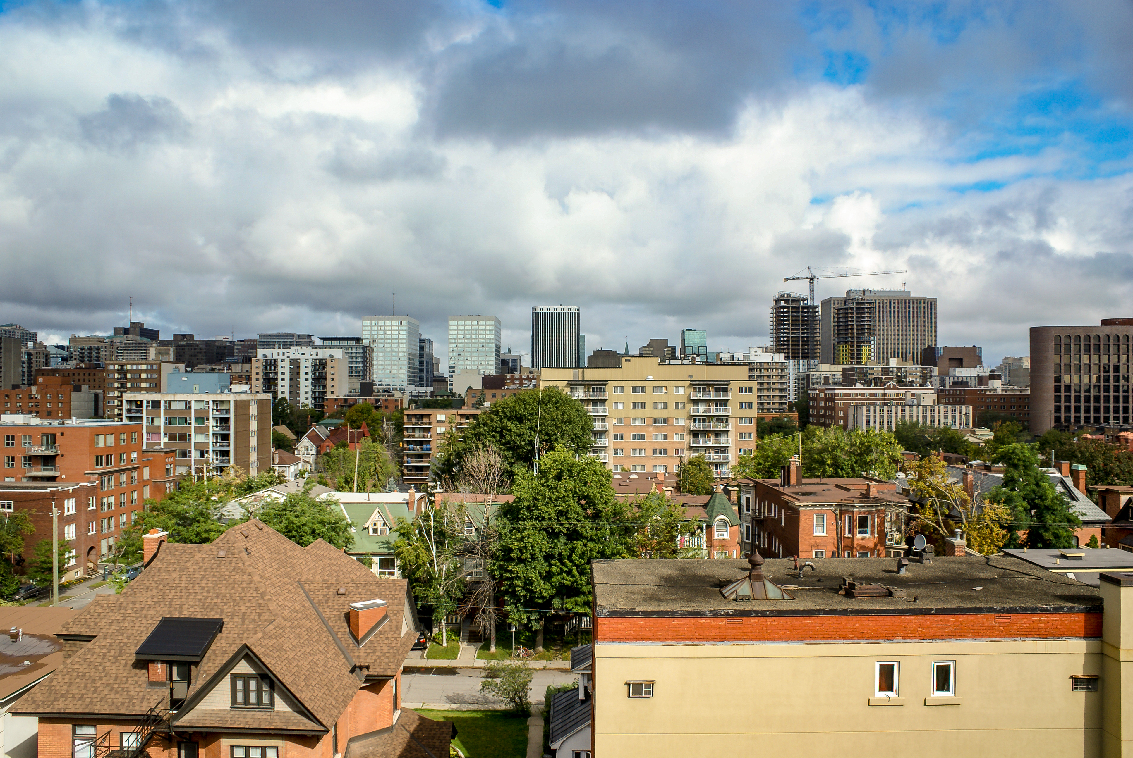 View of Centretown towards Parliament Hill, 2013